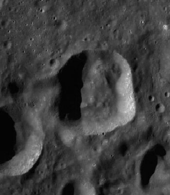 LROC image WAC No. M103110248ME.